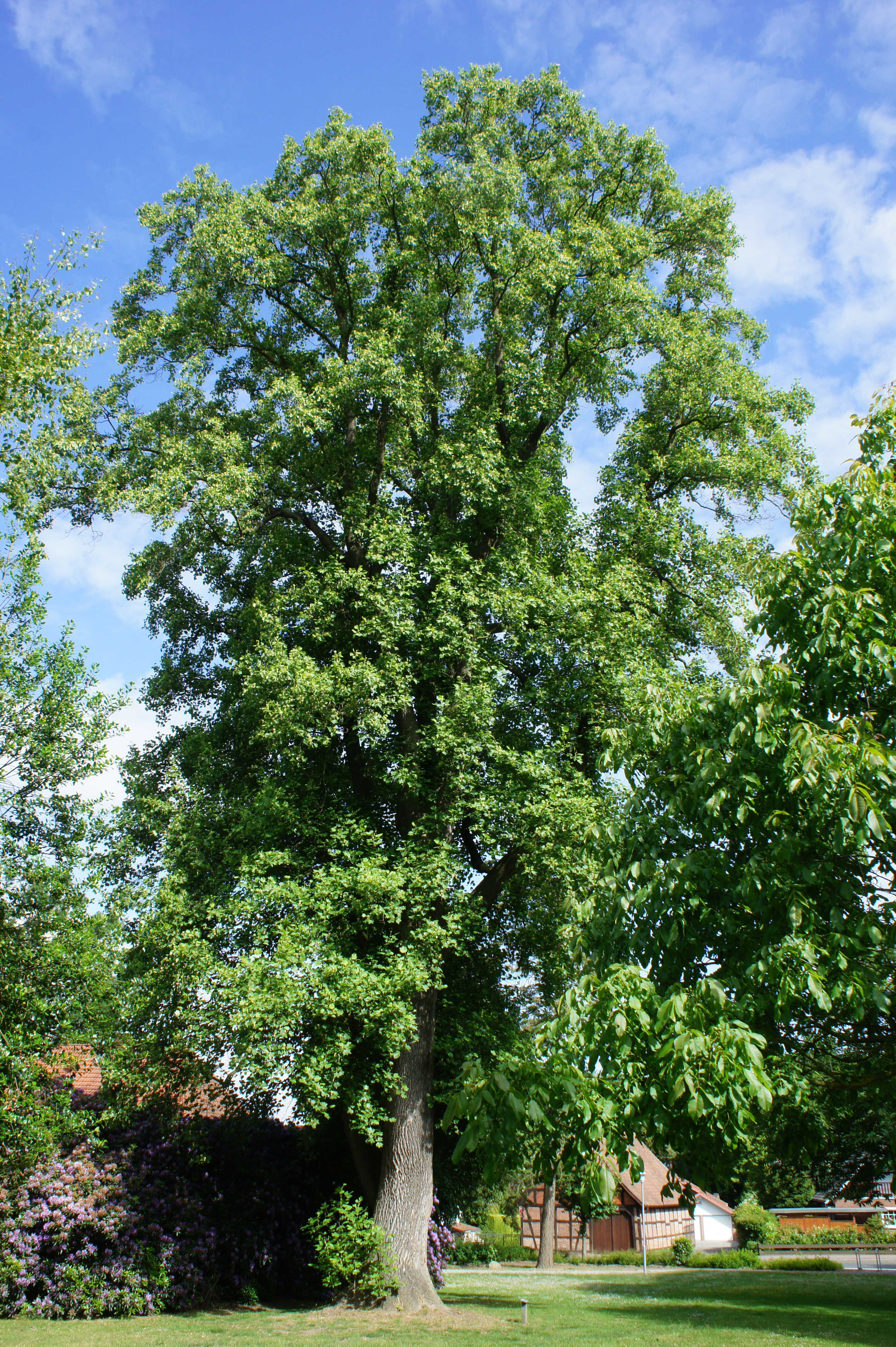 Tulip tree in Harpstedt, June 2015